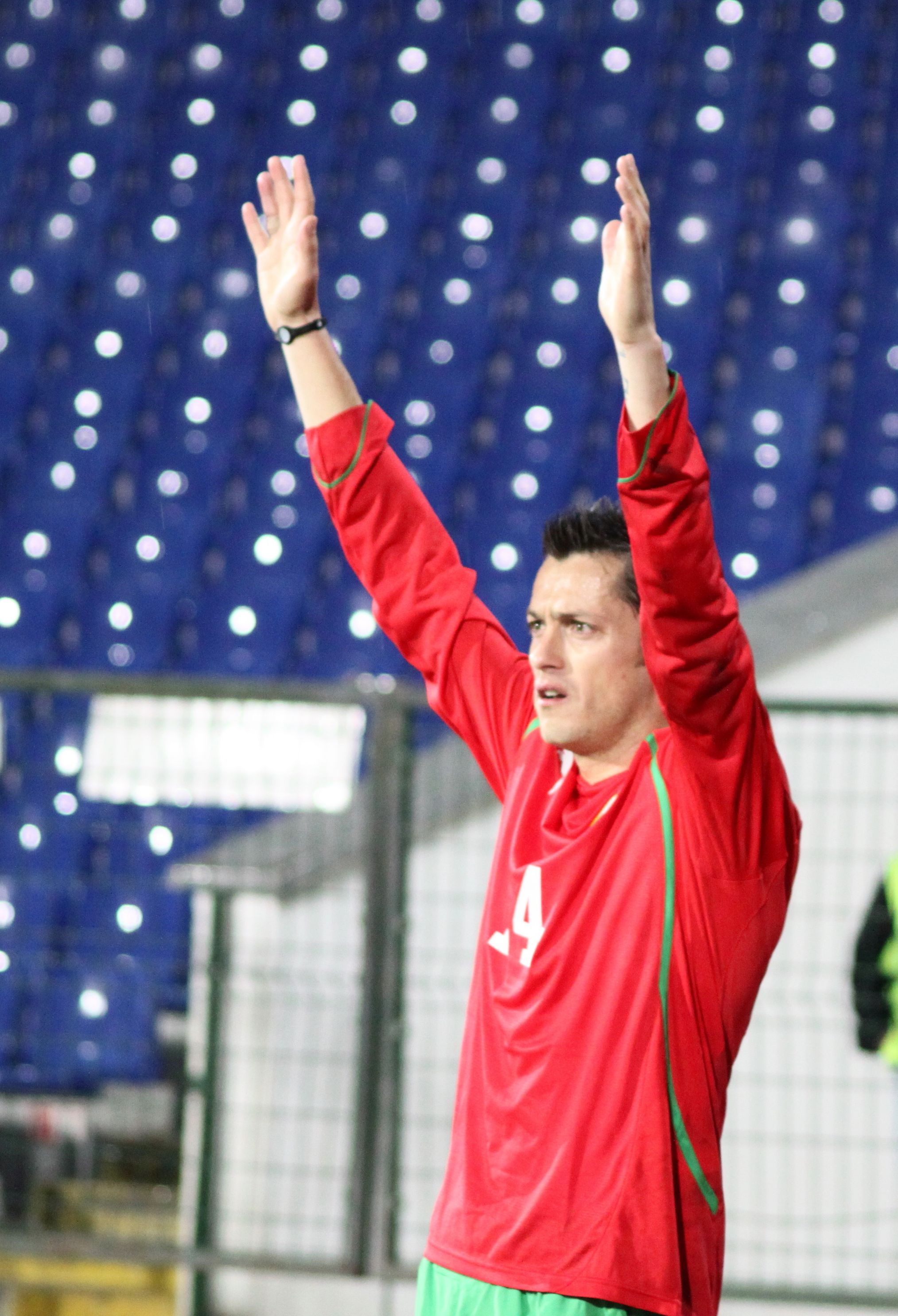 Hristo Yanev (Bulgarian: Христо Янев) (born May 4, 1979 in Kazanluk) is a Bulgarian football player, currently playing for PFC Litex Lovech.